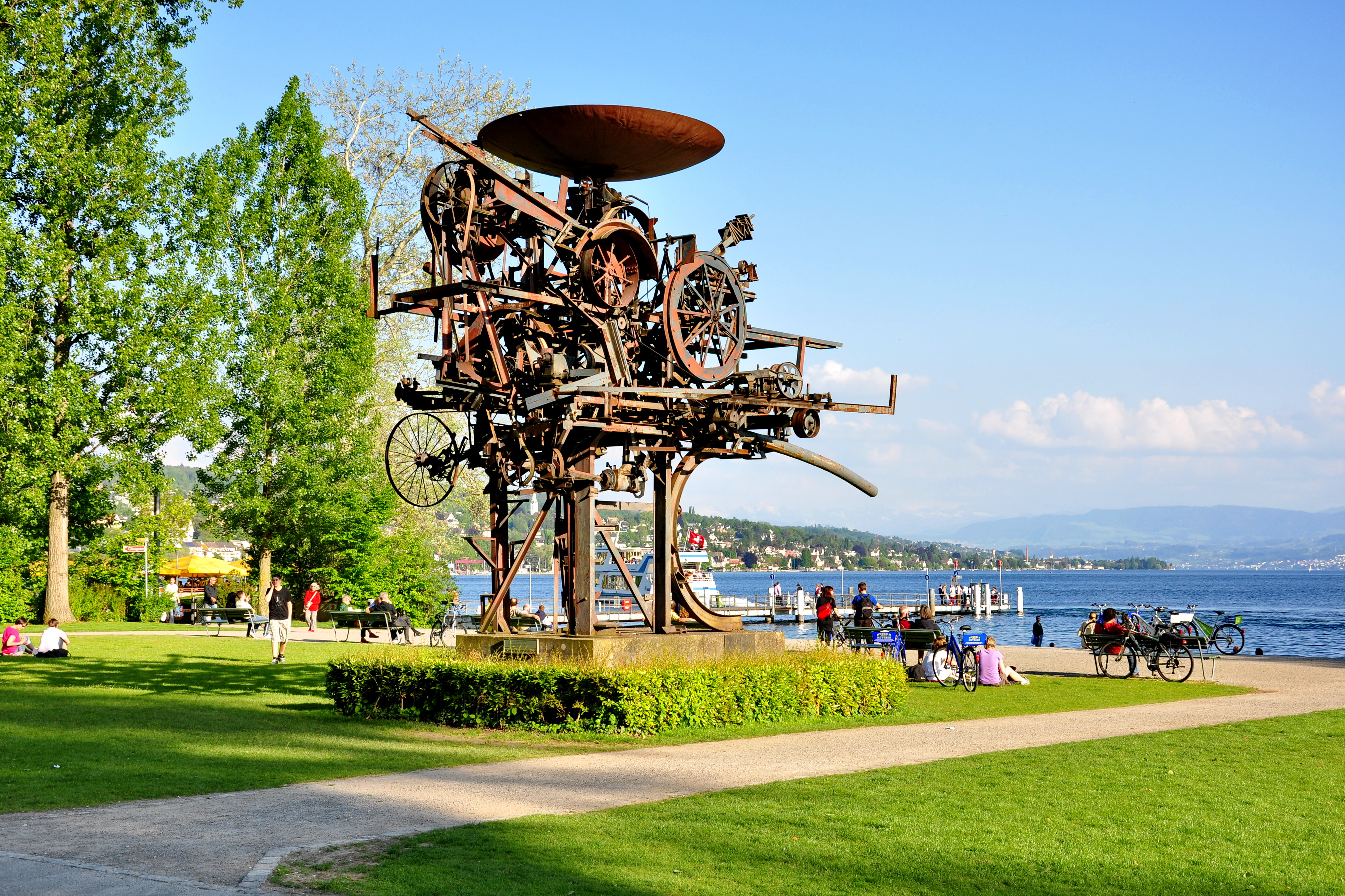 Zürich-Seefeld : Heureka sculpture by Jean Tinguely at Zürichhorn.